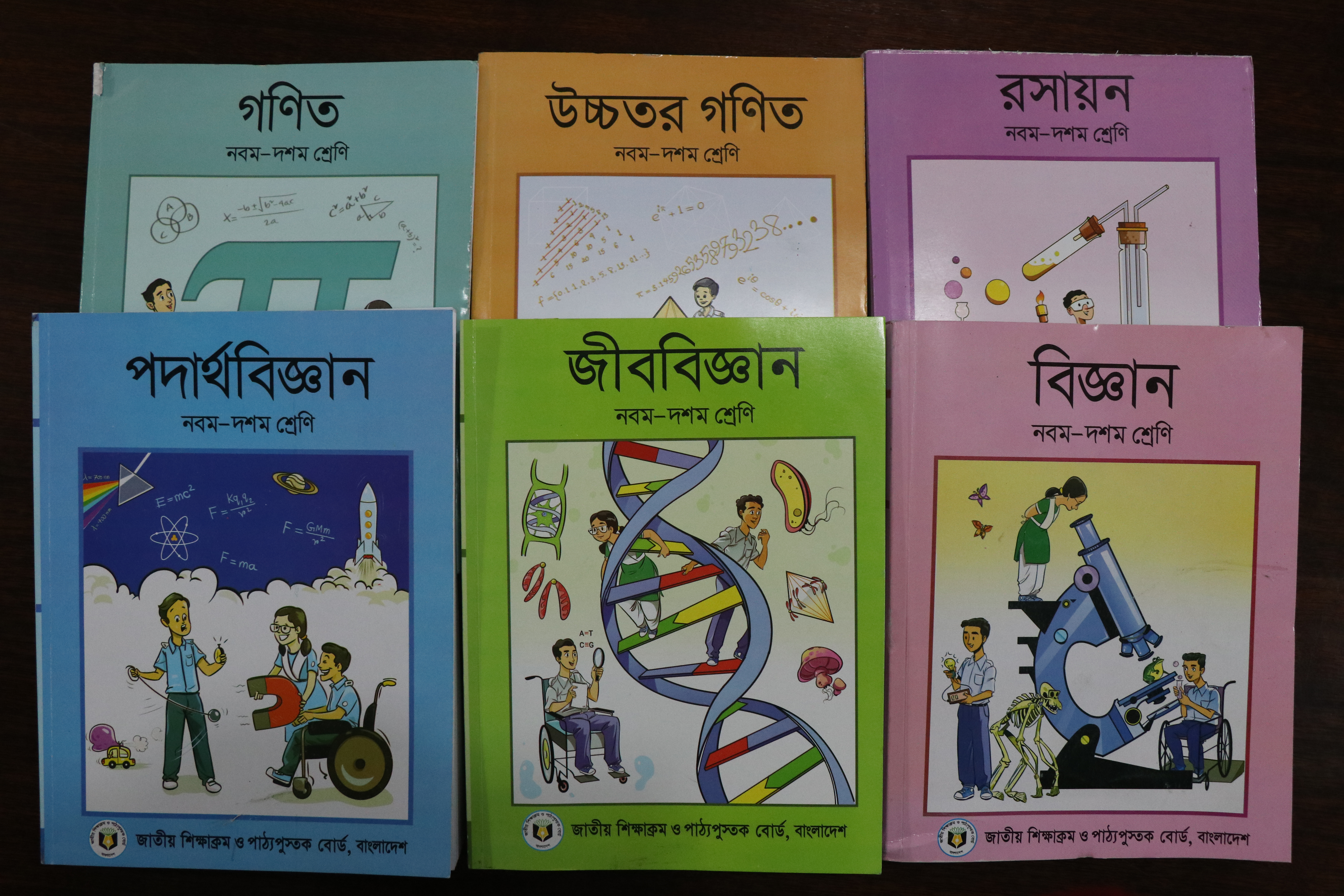 National Curriculum and Textbook Board (NCTB) new science and math book, January 2018